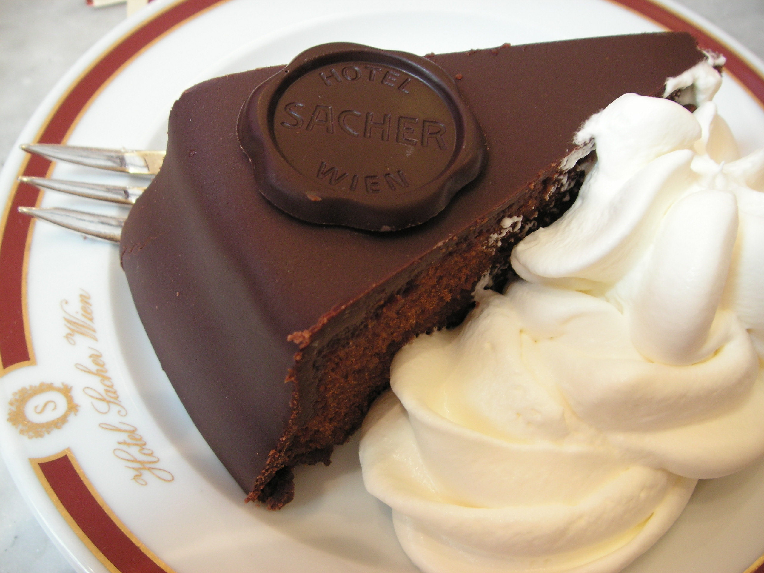 Sachertorte at Hotel Sacher